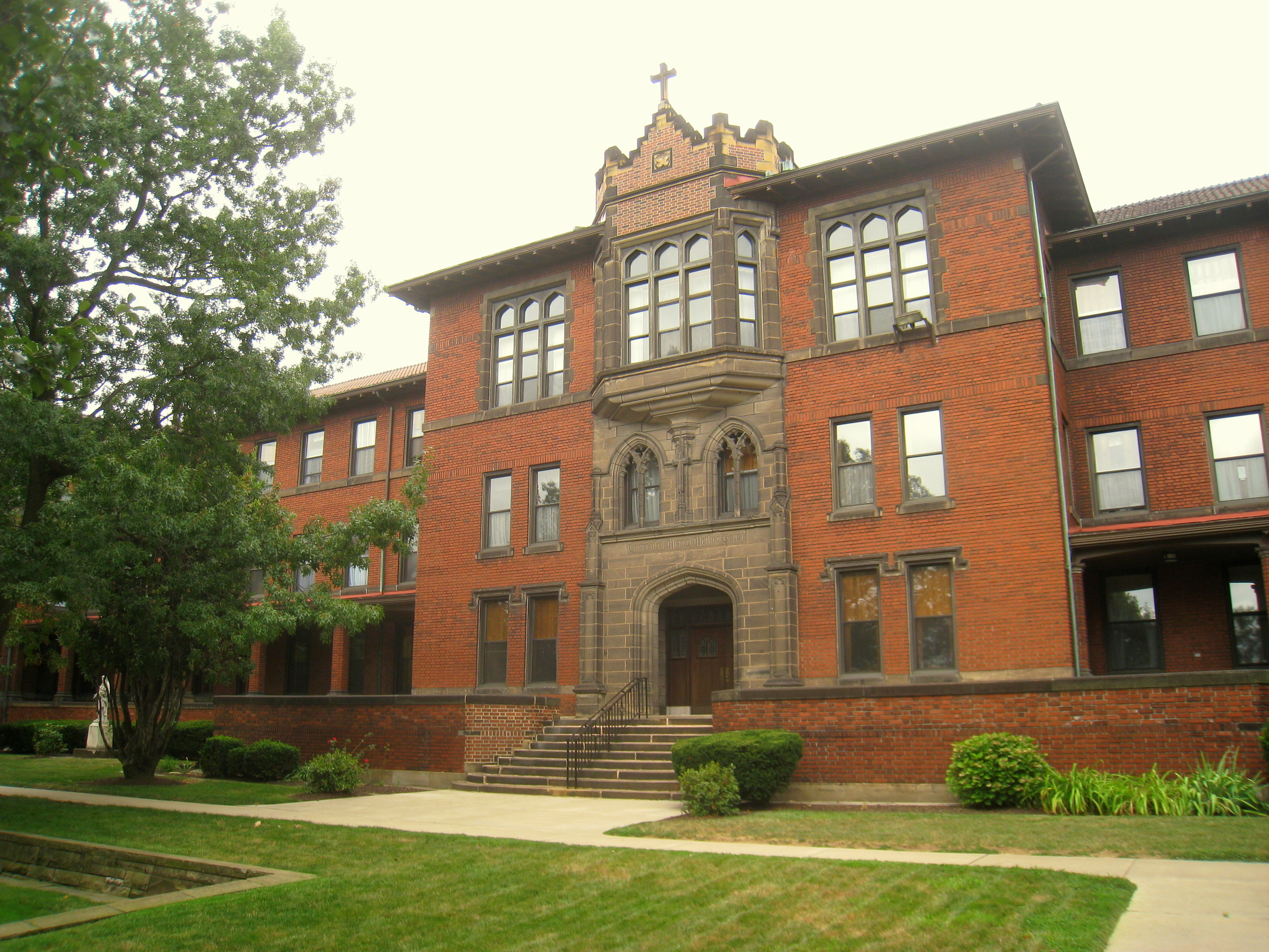 Convent of Mercy, Carlow University, Pittsburgh, Pennsylvania, USA.